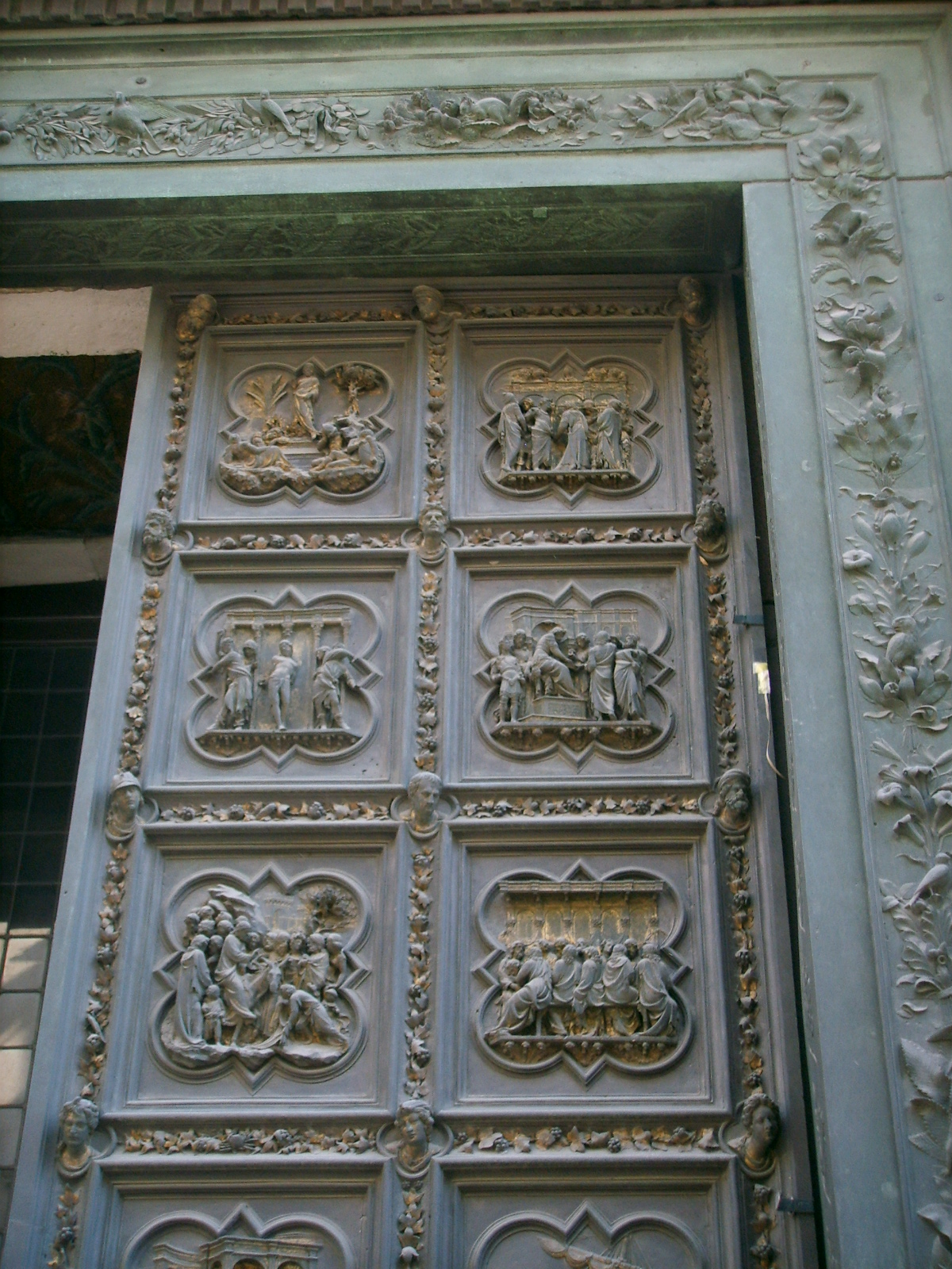 north door of the Florence Baptistery by Lorenzo Ghiberti